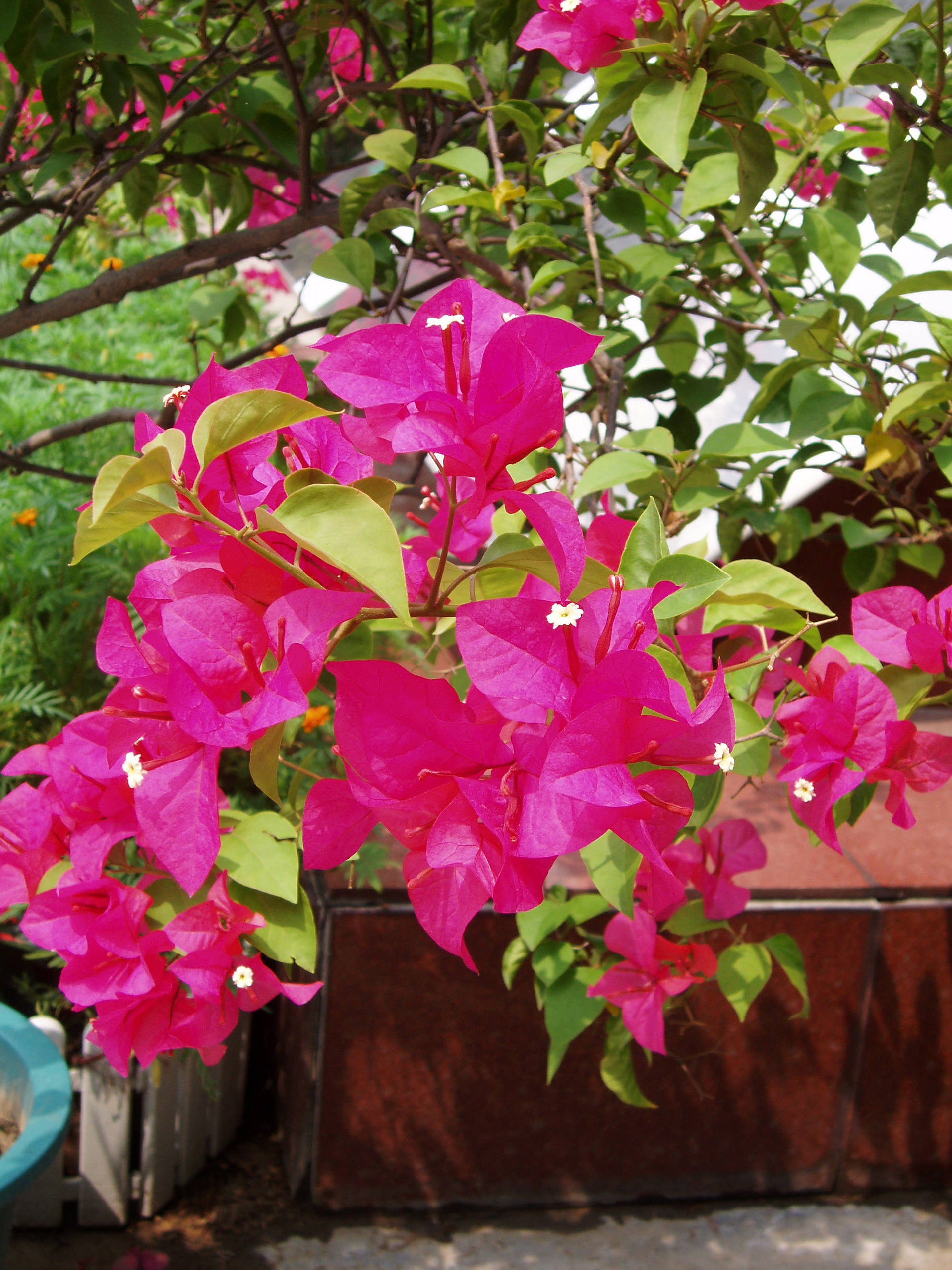 Paper flowers